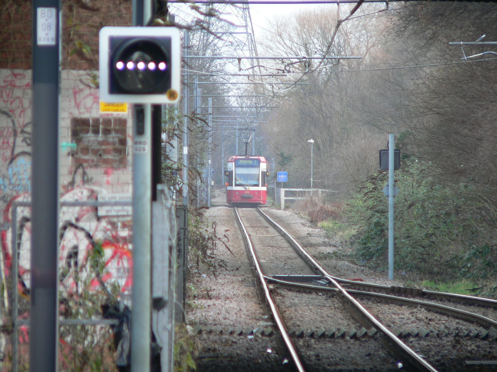 System Tramlink, South London, England. Tram 2532 heads towards Phipps Bridge with an eastbound route 1 service to Elmers End.